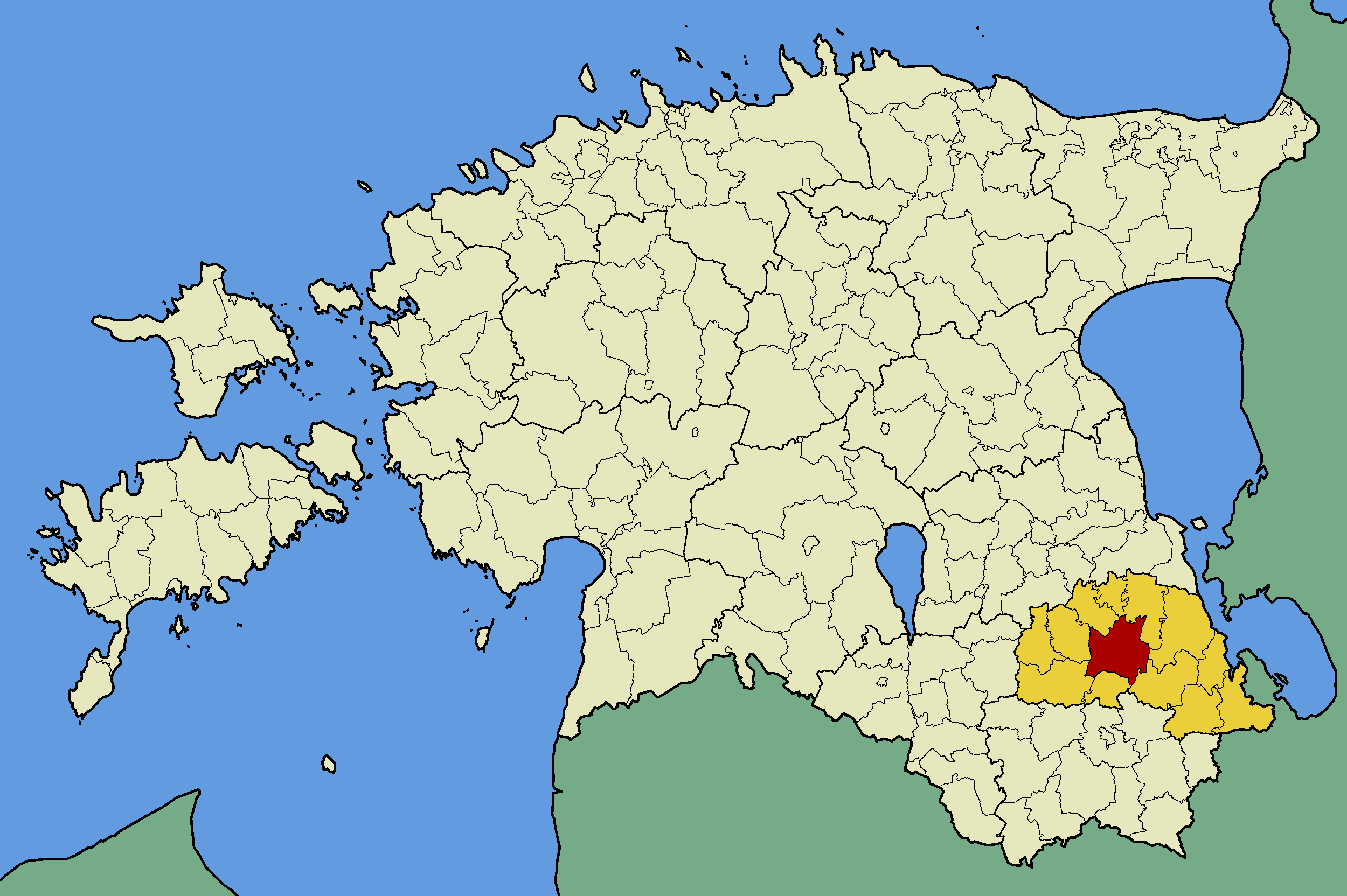 Map of Estonia with borders of municipalities (parishes). Põlva county and Põlva municipality emphasized.